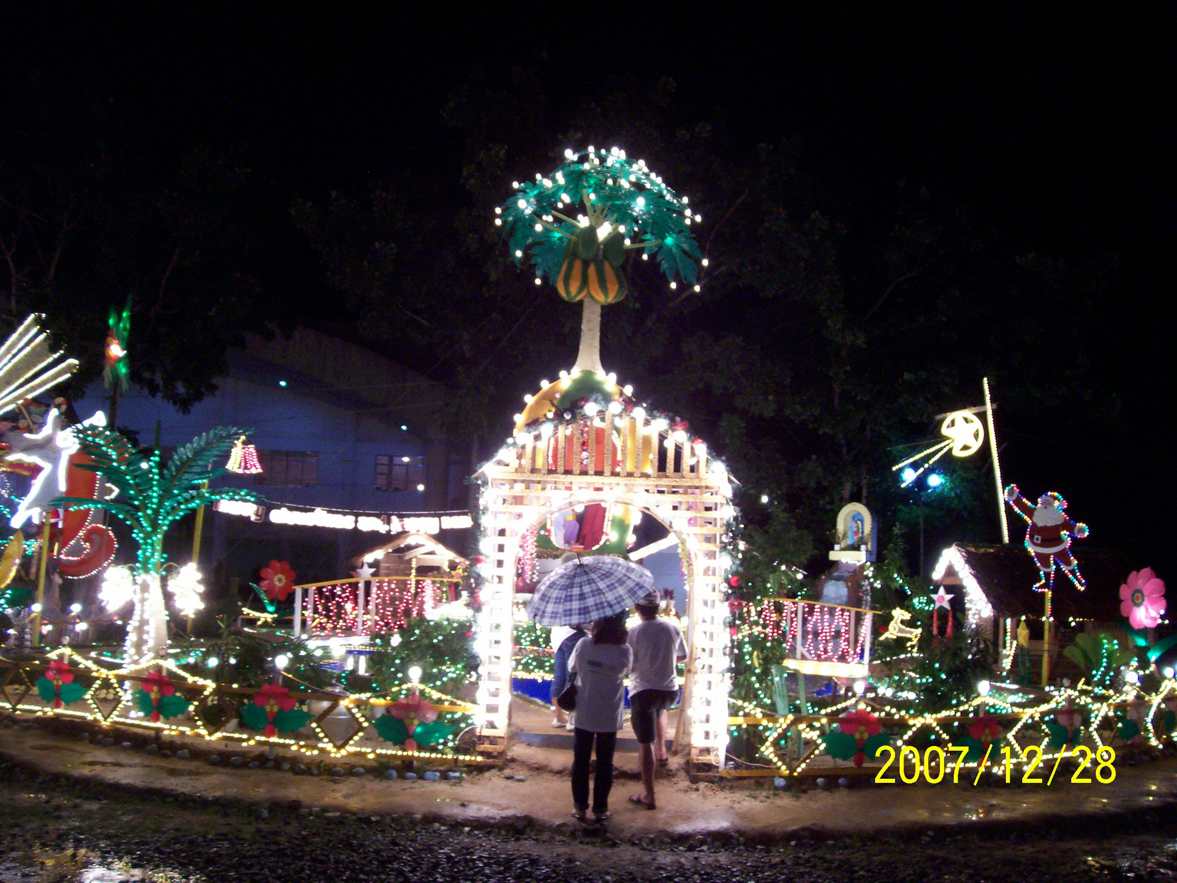 One of many Christmas decorations in central Tangub, Philippines